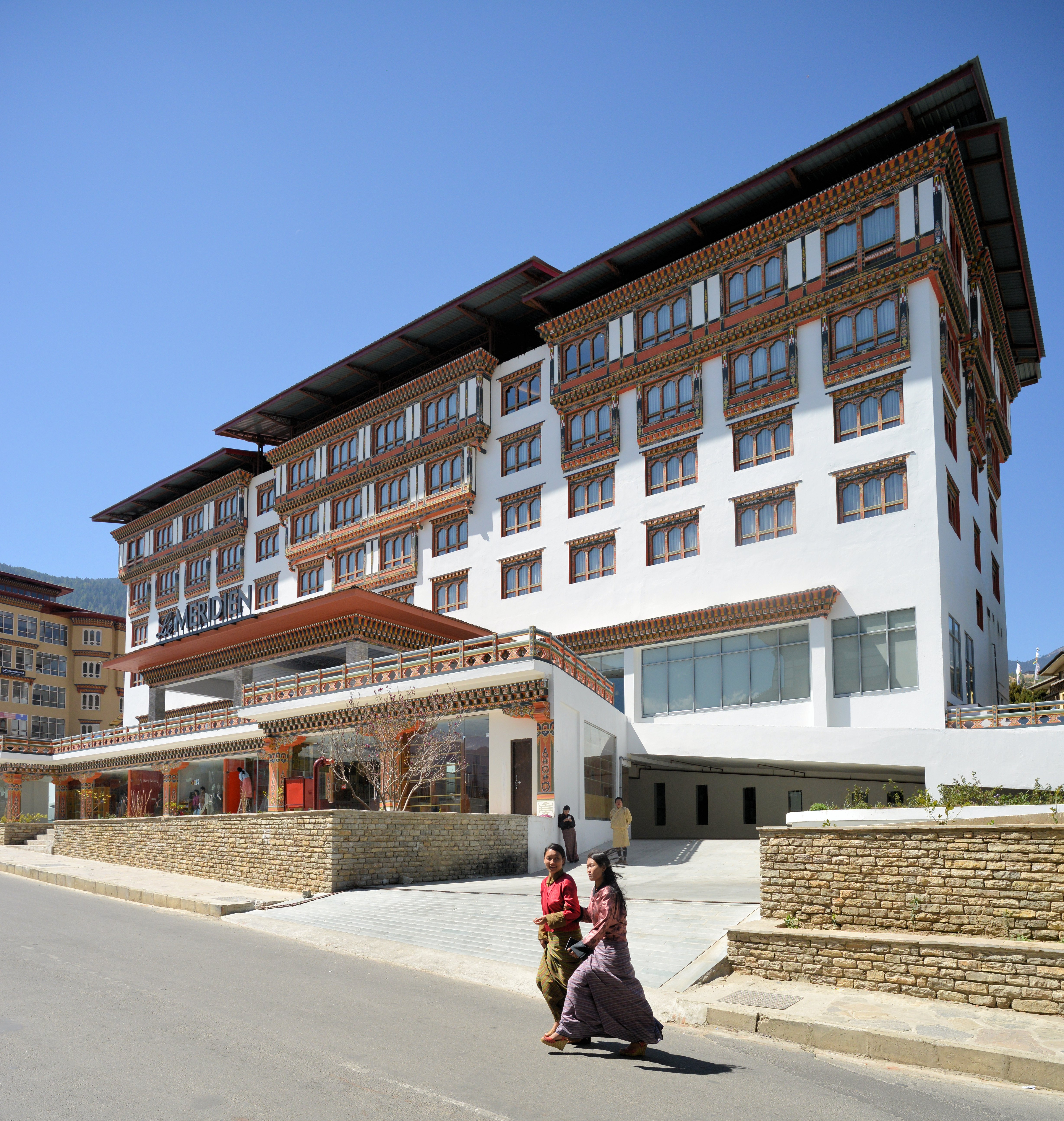 Le Méridien Hotel in Thimphu, Bhutan